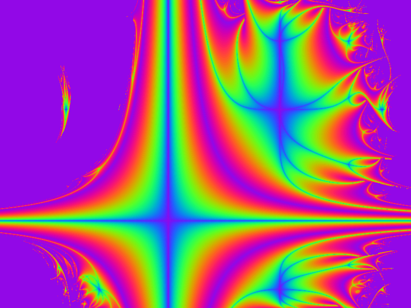 Lyapunov Fractal, made with Winfract 18.21.